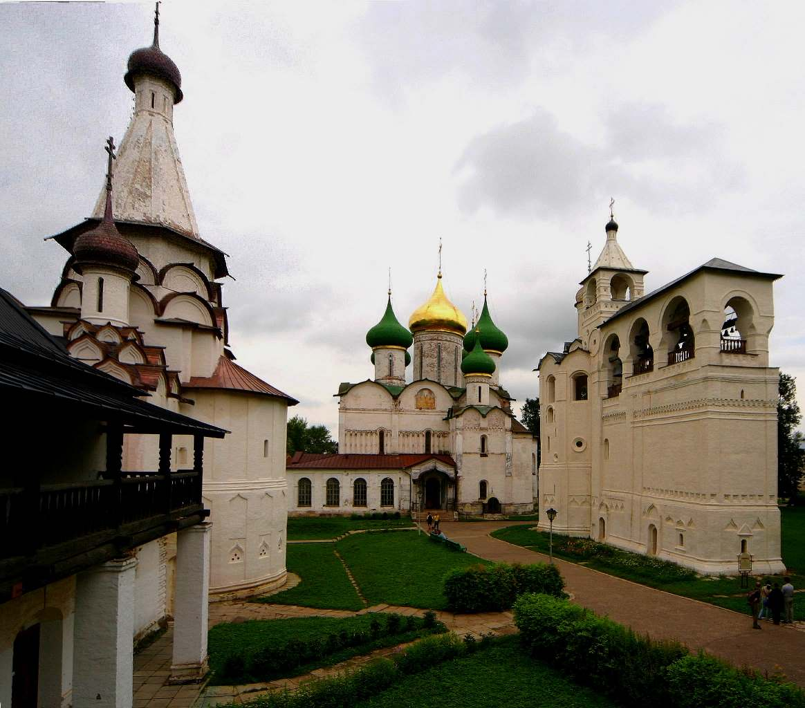 Russia Suzdal: St.Euthymius_Monastry, the Transfiguration Cathedral and the Belfry. Taken by myself on 2004-July-25